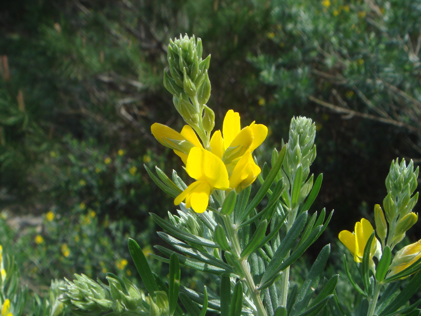 Flax broom at Ceuta, Spain.